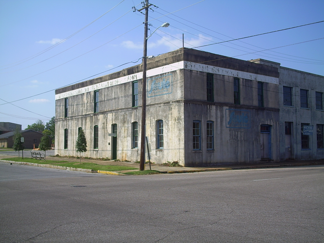 Soulé Steam Feedworks Machine Shop Annex in downtown historic district of Meridian, Mississippi